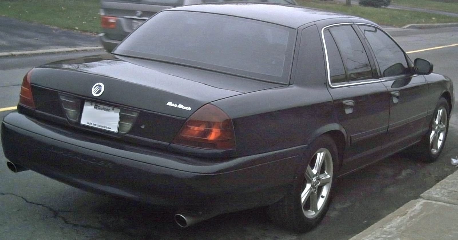 2003-2004 Mercury Marauder photographed in Montreal, Quebec, Canada.